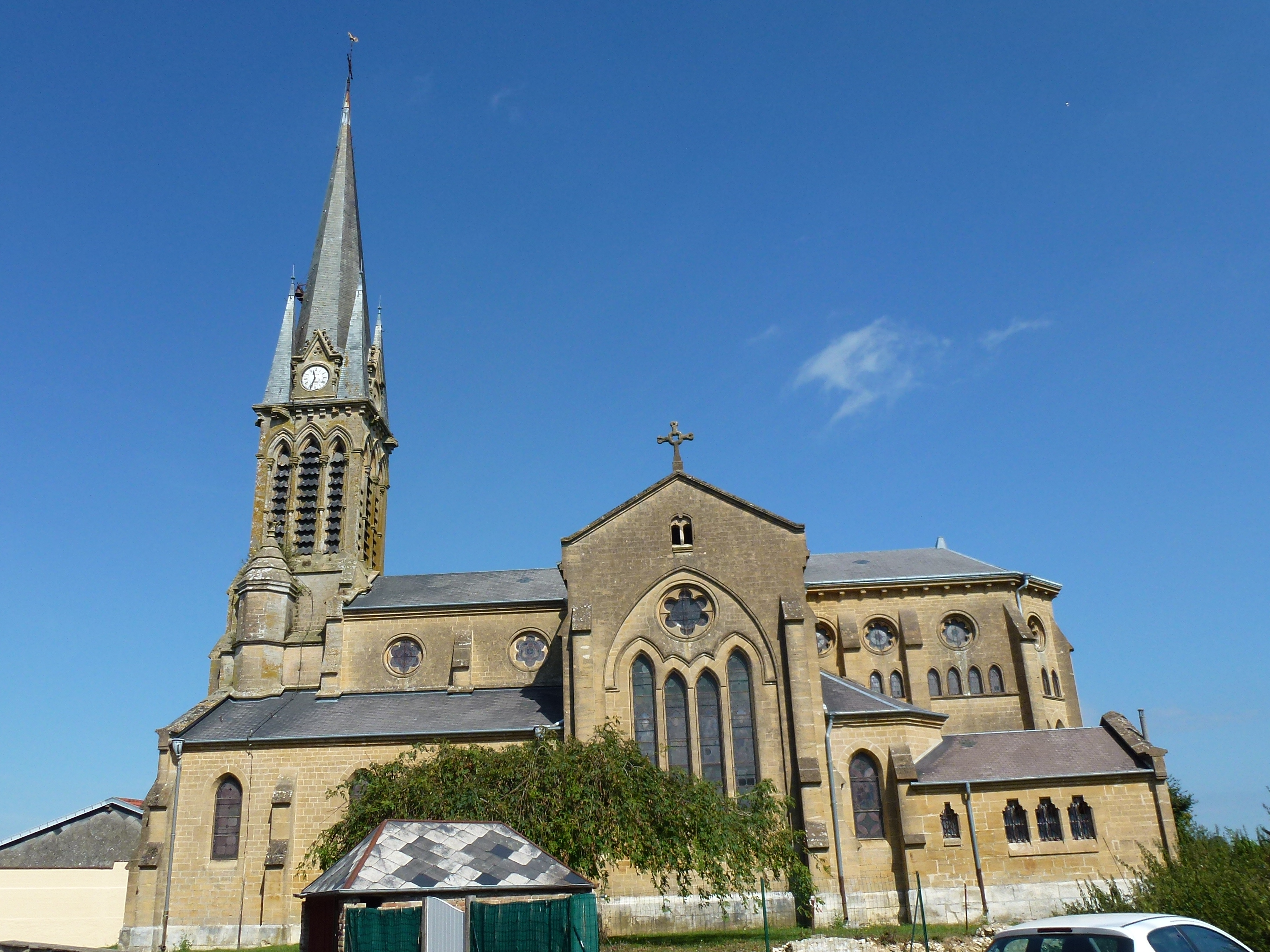 Jonval (Ardennes) église, vue latérale